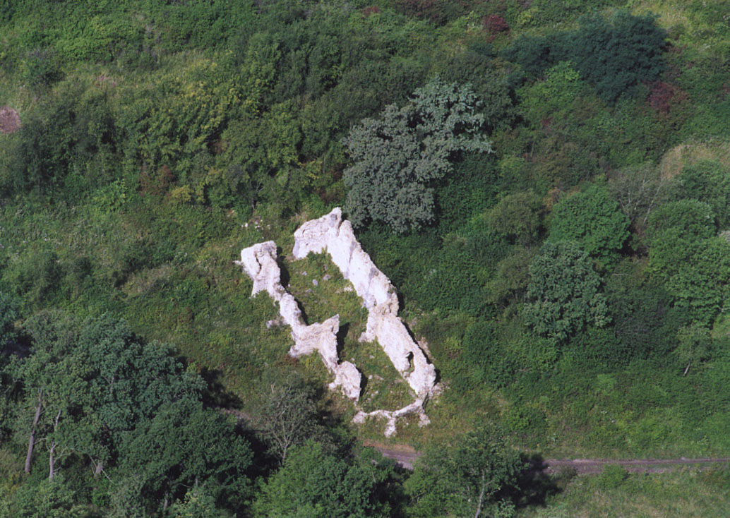 Pauliner Convent - Kurityán - Hungary - Europe